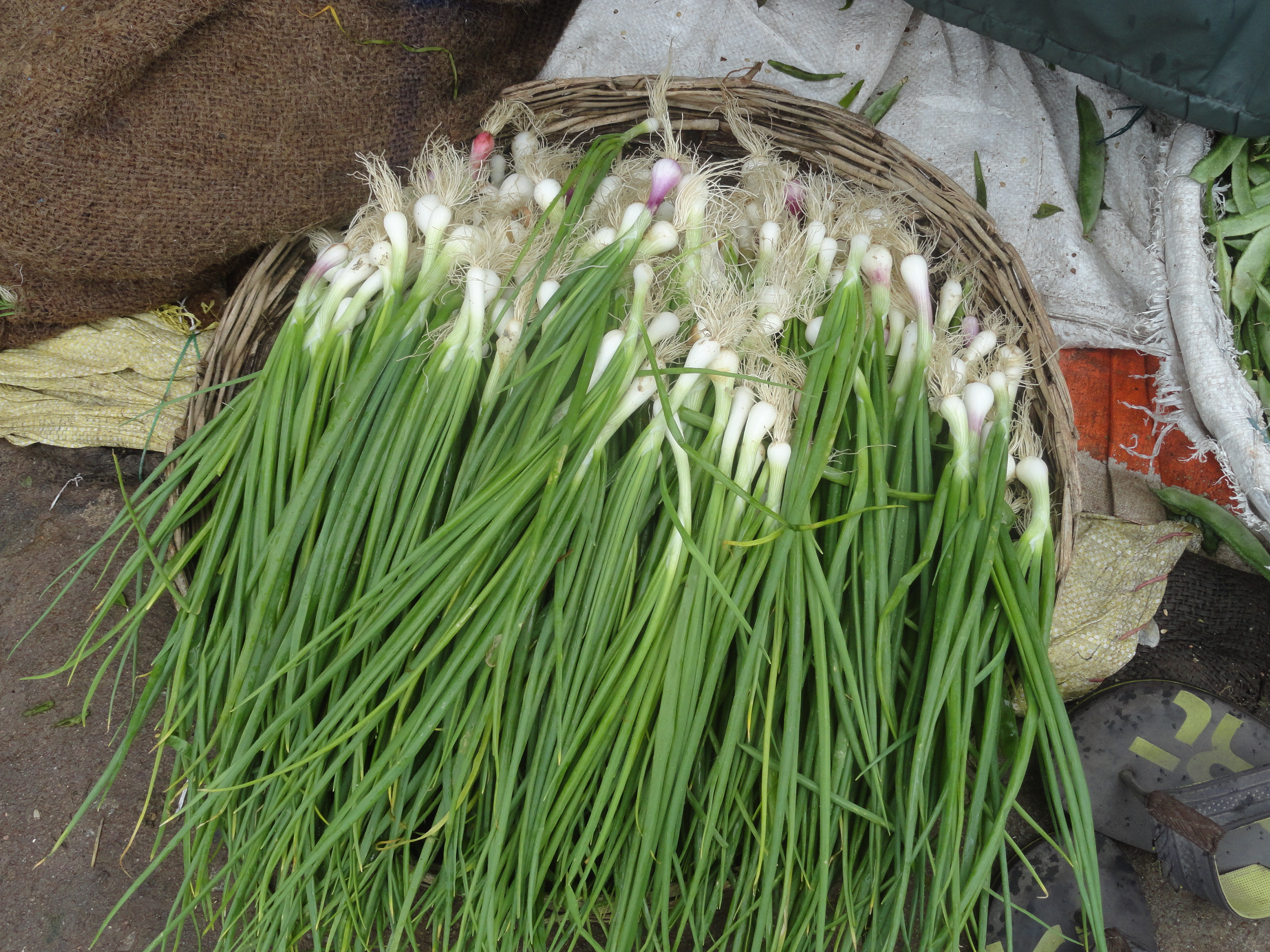 ఉల్ల కాడలు